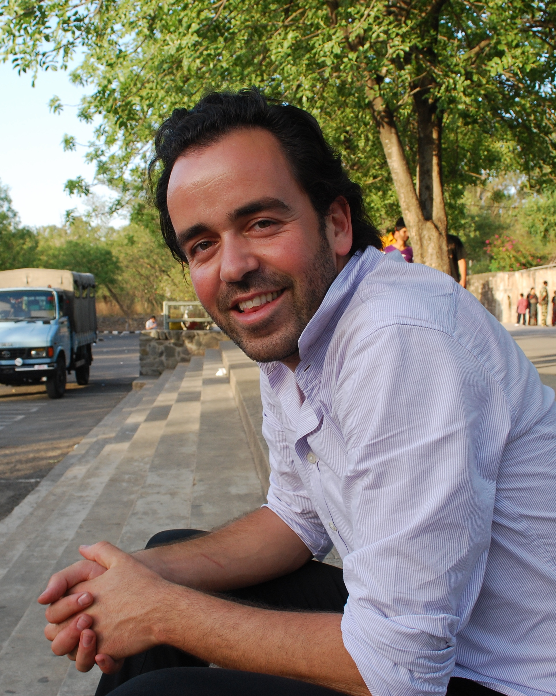 Iwan Baan in Chandigarh